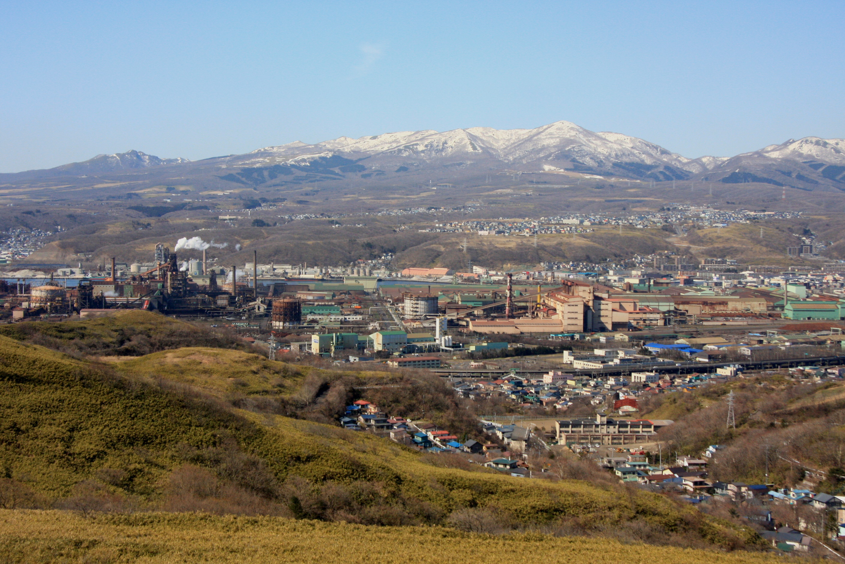 Muroran iron and steel works and south side of Mout Washibetsu.